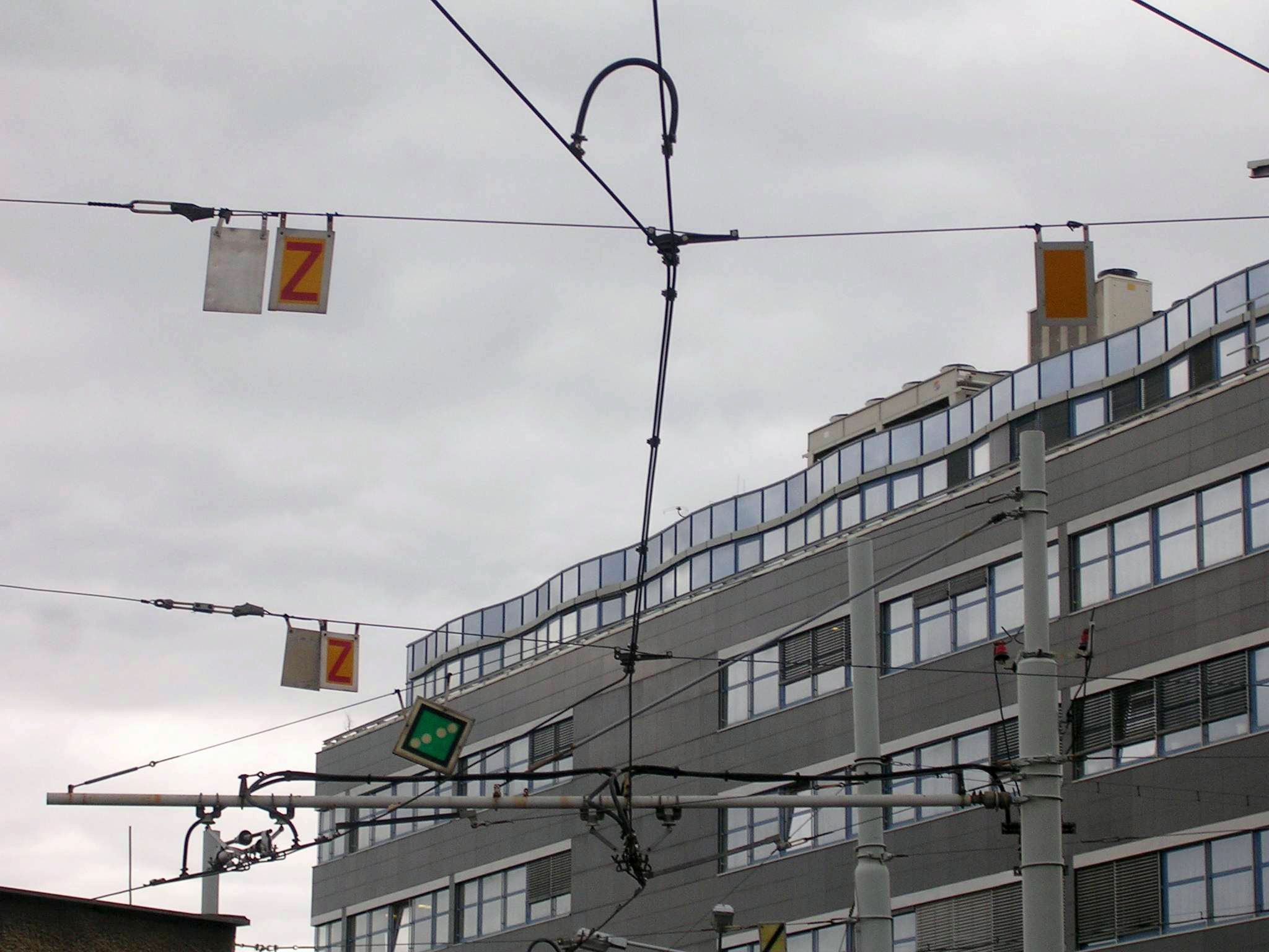 Tram signs, Prague.